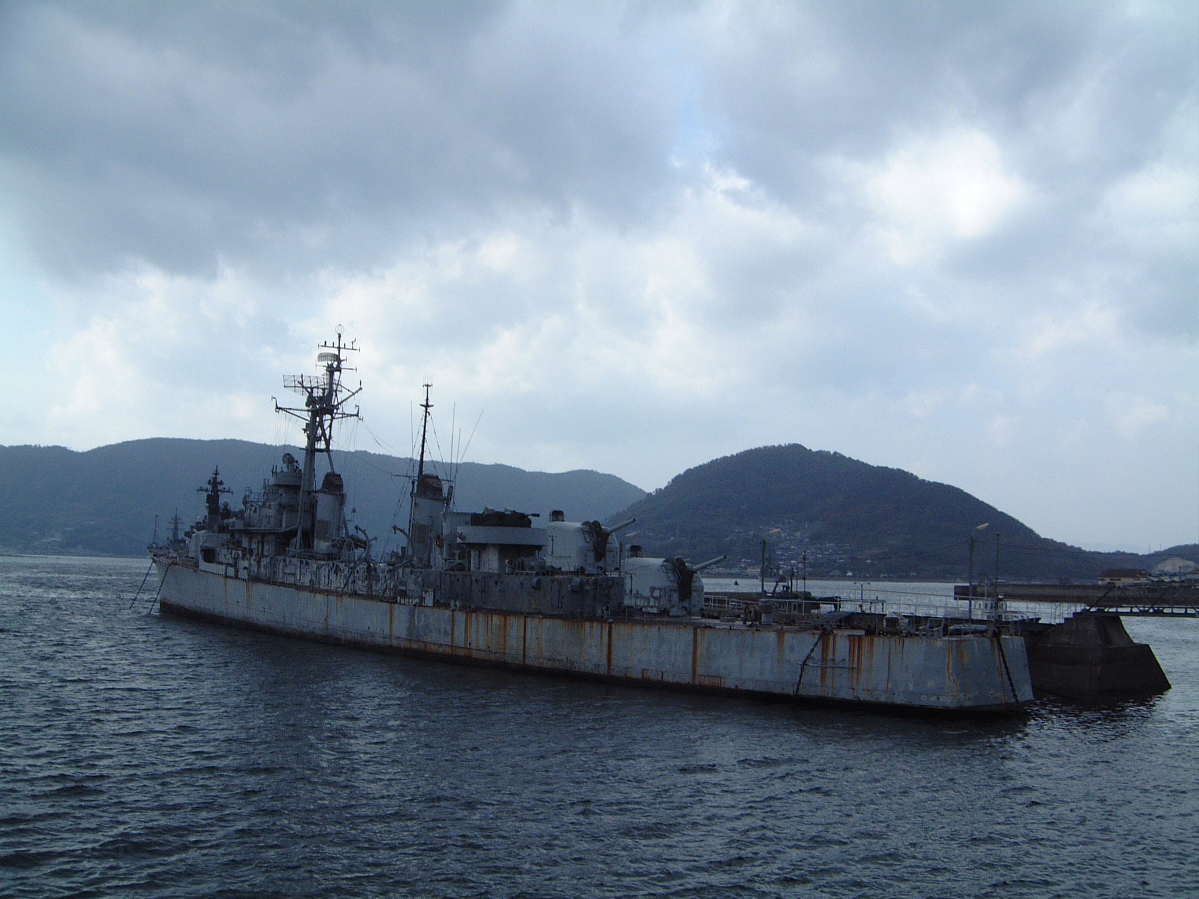 旧護衛艦はるかぜ 海上自衛隊第1術科学校で保管中の2000年12月5日に撮影 撮影者:Fwng3431 Retired JDS Harukaze She was kept in Japan maritime self-defence force first maritime service school 5/DEC/2000